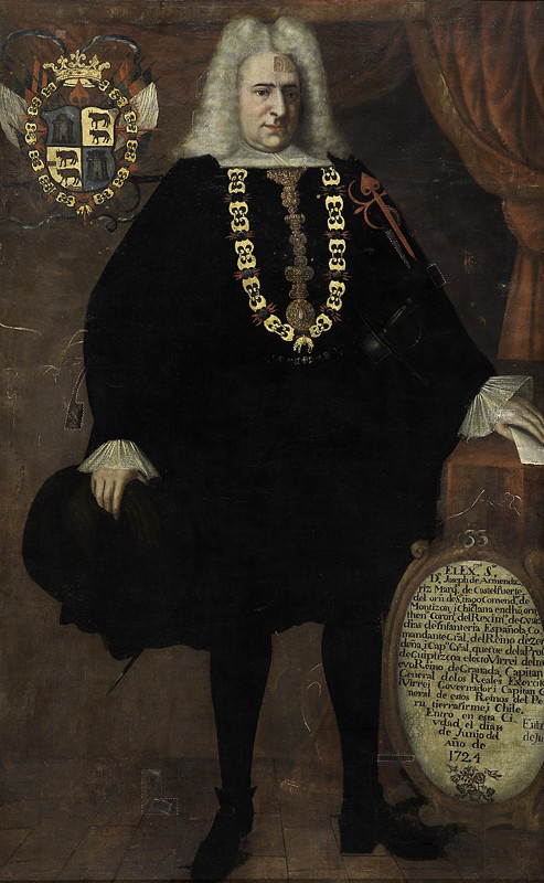 Portrait of José de Armendáriz, Spanish viceroy of Peru from 1724 to 1736